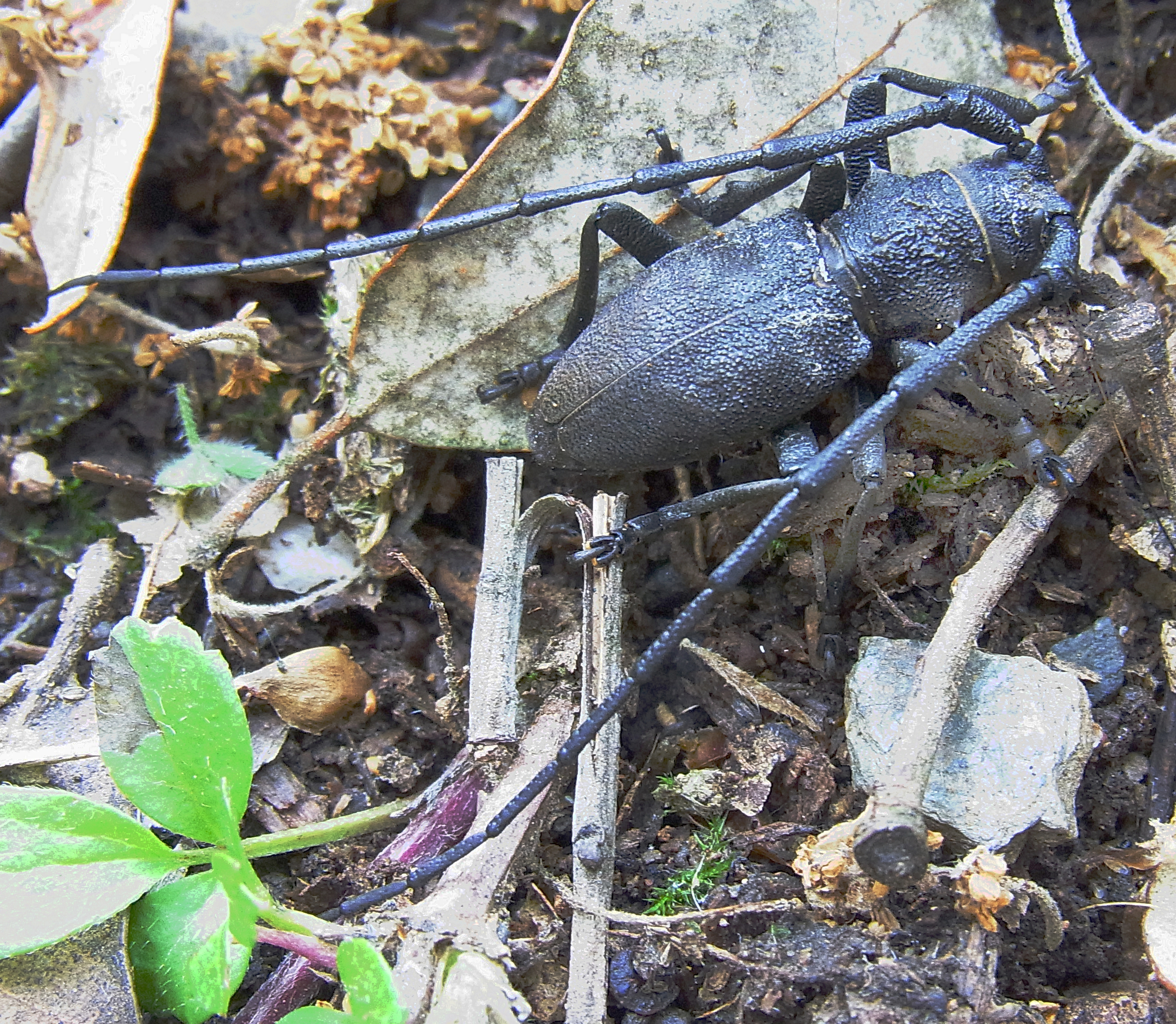 Morimus asper from France, northwest of Carcassonne at 2011-06-06